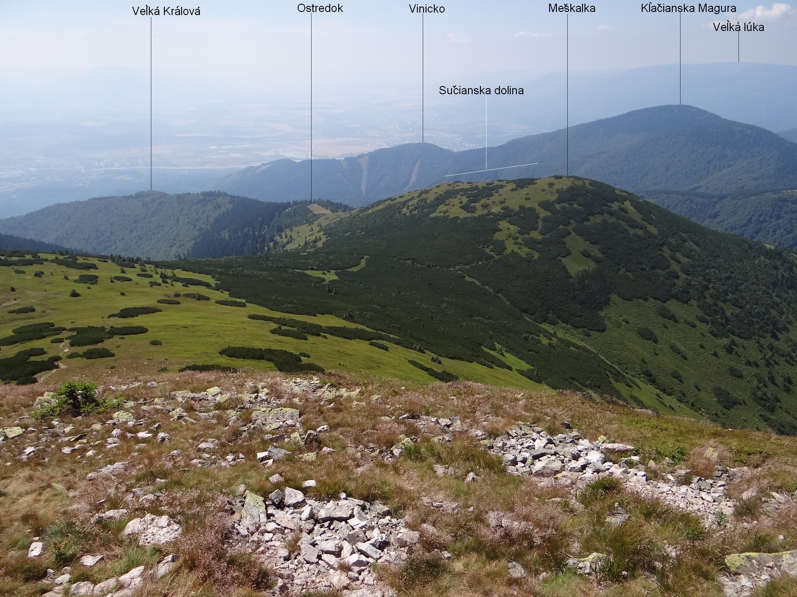 View from Malý Kriváň